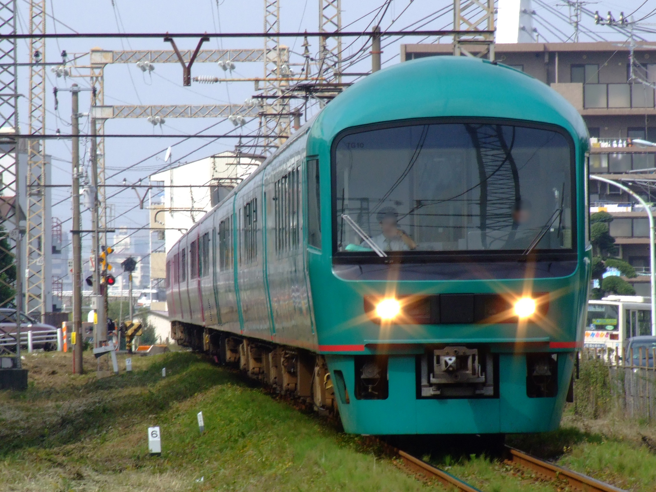 JR series 485 for Yamanami (The Joyful Train)